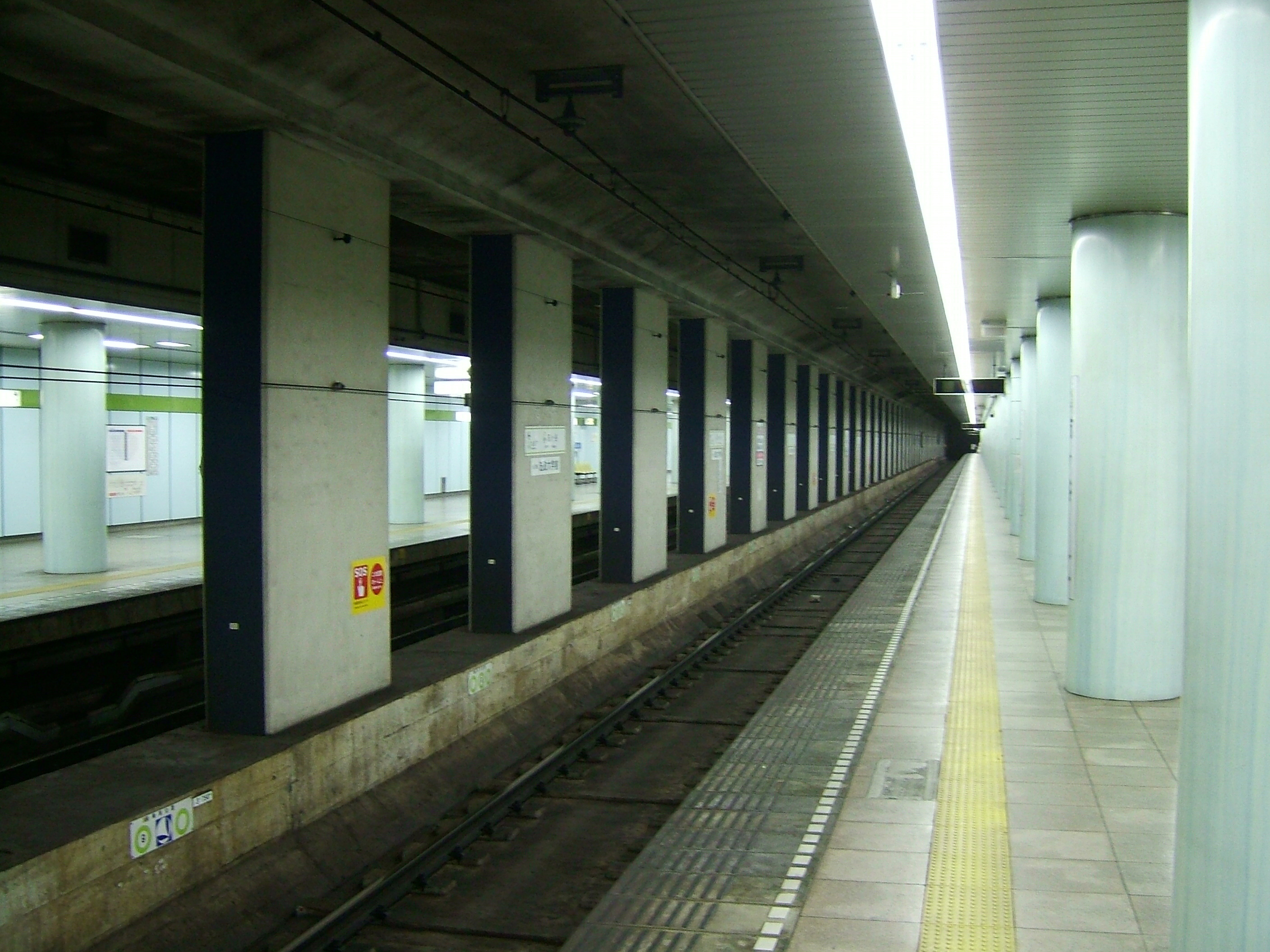 The platforms at Ichigaya Station on the Toei Shinjuku Line in Chiyoda city, Tokyo, Japan